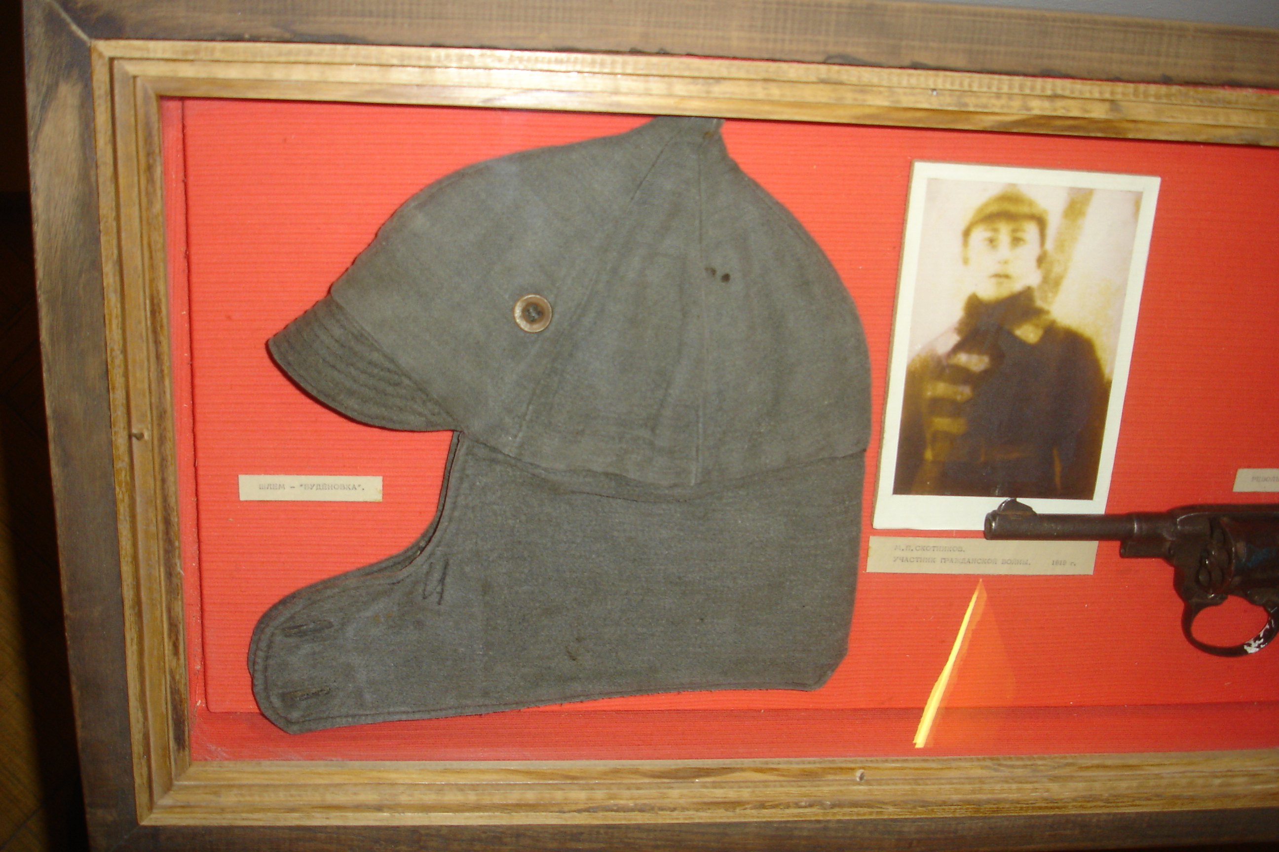 Budenovka hat, Russian civil war 1918-1920-s period. Original. Konakovo museum of local studies, Russia, 2009.